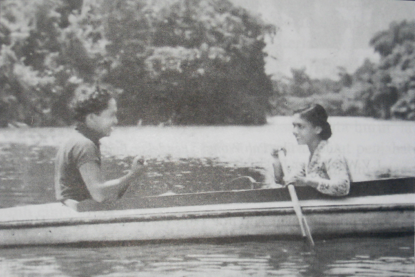 A film still from Sorga ka Toedjoe, a production by Tan's Film, showing Rasminah (Roekiah) and Kasimin (Djoemala) on a date together.